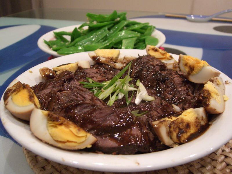 Braised Ox Cheek in Star Anise and Soy Sauce.